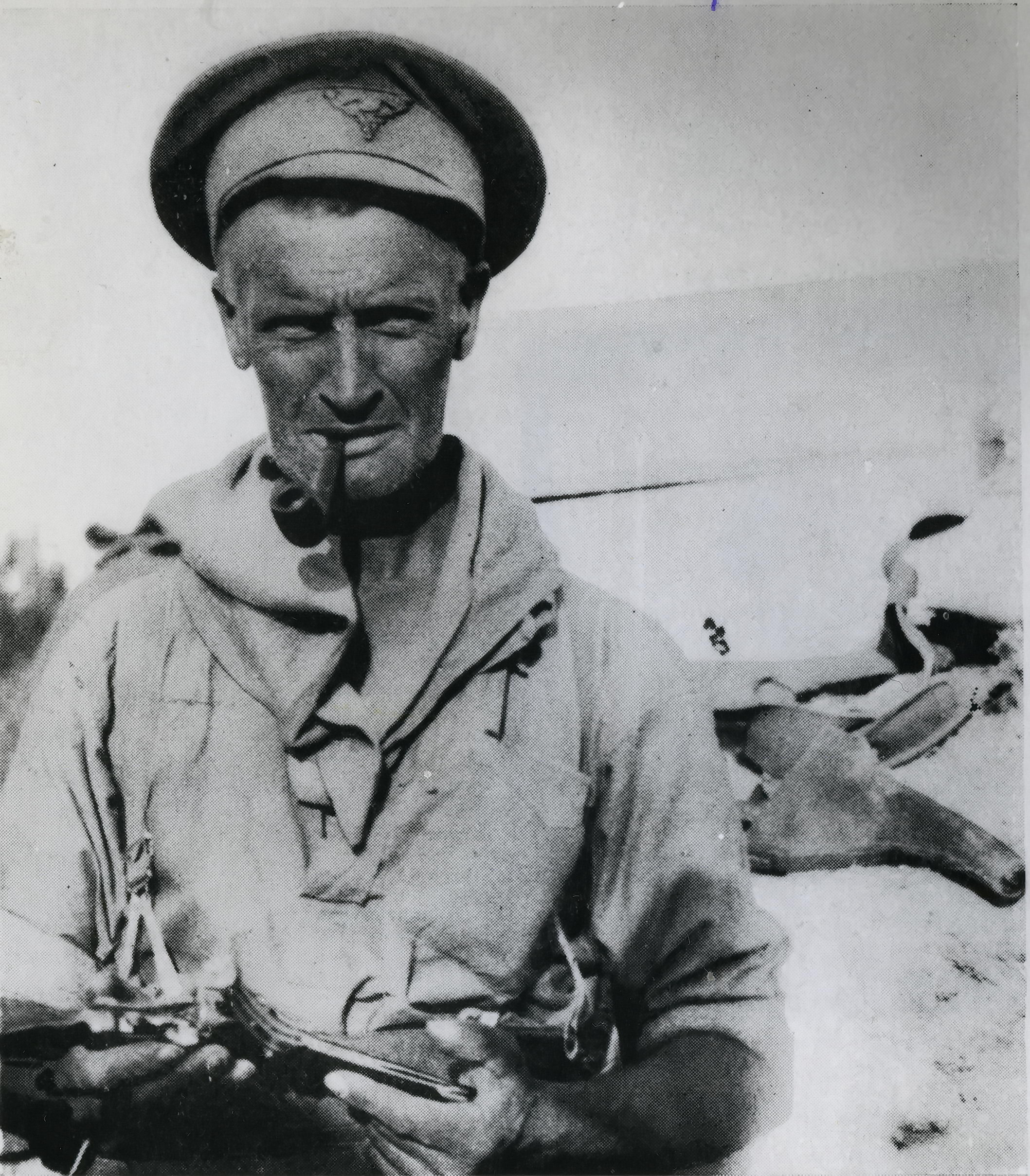 This image of Francis Morphet Twisleton of the Otago Mounted Rifles comes from a published volume, which was rephotographed and then archived in a series of historic Post Office prints. The caption notes that Twisleton is pictured in the only captured trench during the first attack on 21 August 1915 (Hill 60: His revolver, on his thigh, had just been smashed by a bullet. Twisleton died of wounds in November 1917. his personnel file can be read online here: Archives Reference: AAME W5603 Box 118/ 11/17/17 [120] Material from Archives New Zealand